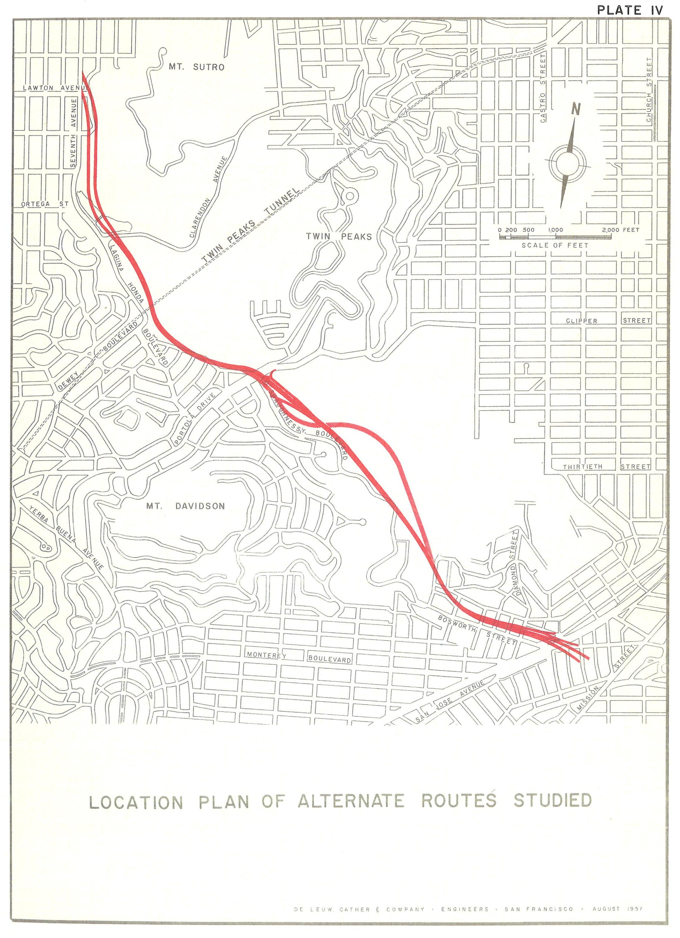 This 1957 map shows the planned route for the Crosstown Freeway through the Glen Canyon Park region of San Francisco, California. The freeway was never built; it was strongly opposed by local residents. The conflict is among the earliest examples of a "Highway revolt in the United States".